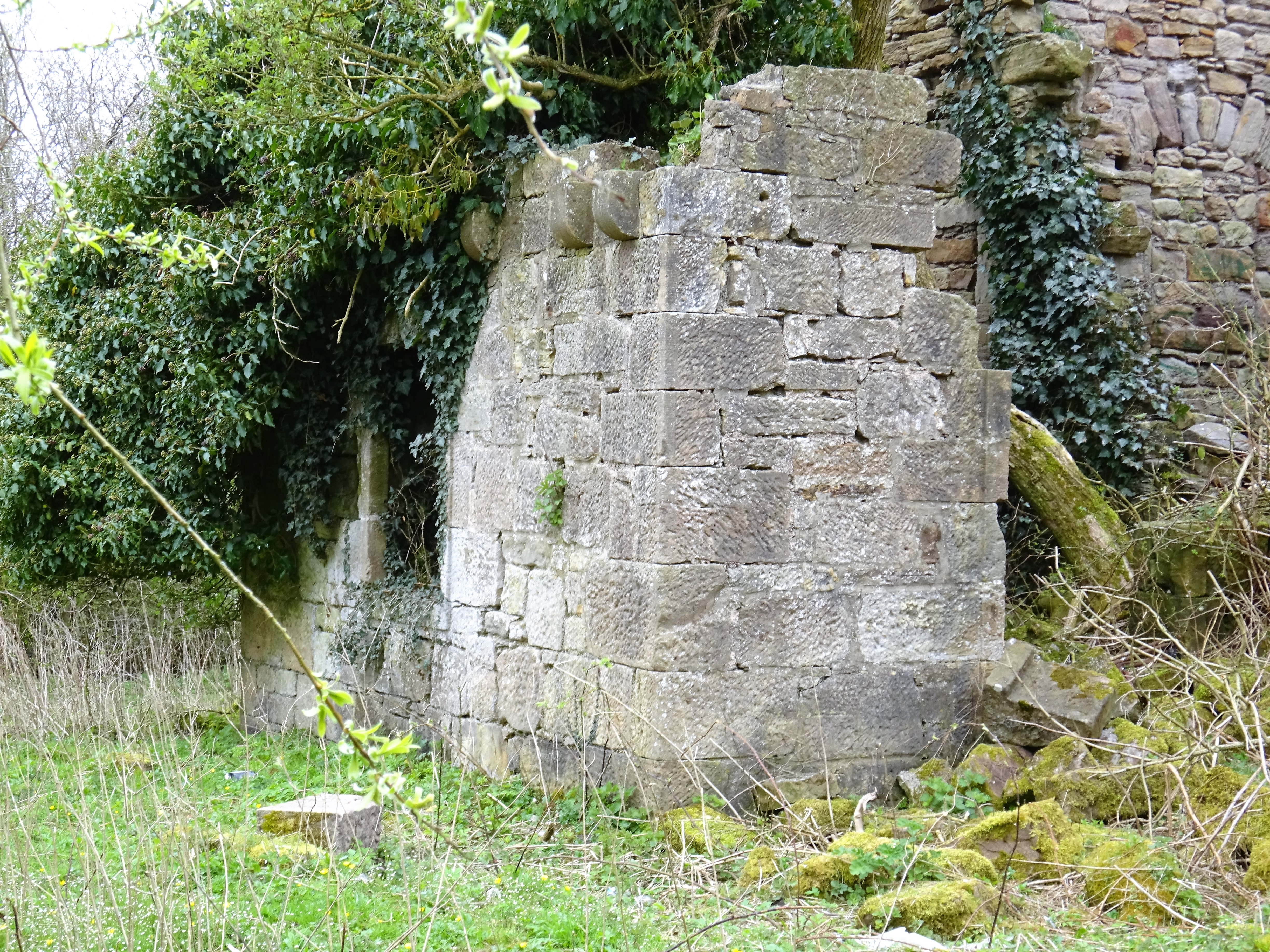 Blacksyke Tower side building, Caprington, East Ayrshire. A small extension contemporary with the tower.